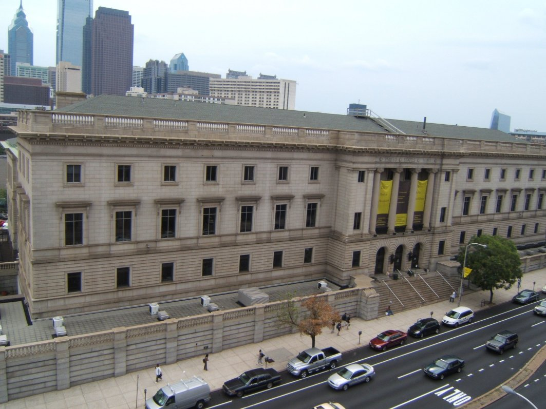 Former United States Mint Building (1901-1969), 1600 Spring Garden Street, Philadelphia, PA 19130, now Community College of Philadelphia, Mint Building